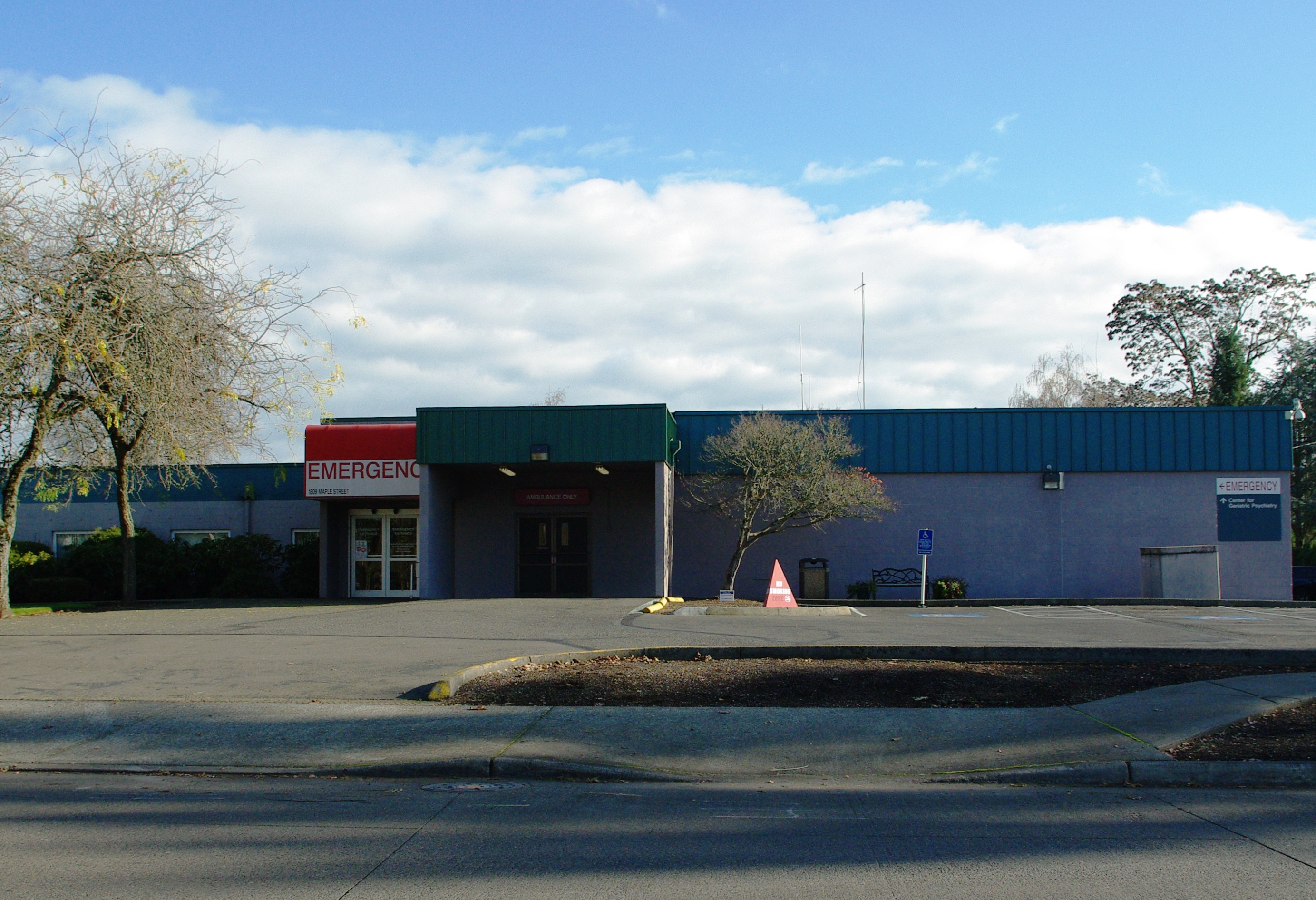 Tuality Forest Grove Hospital ER entrance.